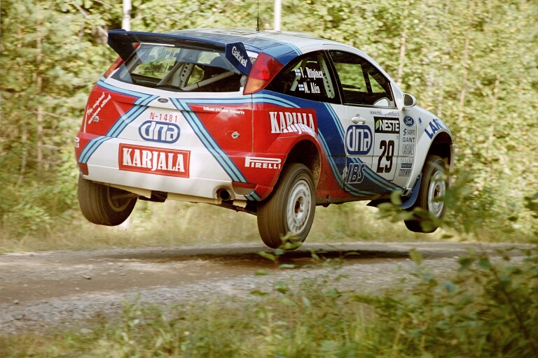 World Rally Championship WRC Rally Finland 2001